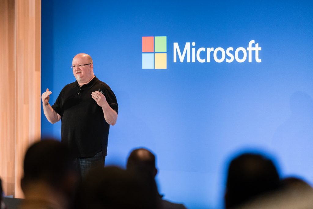 Kevin Scott on stage